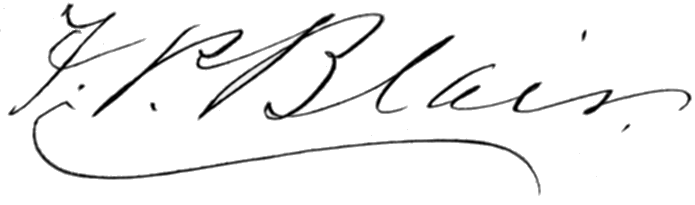 signature of Francis P. Blair, Sr.